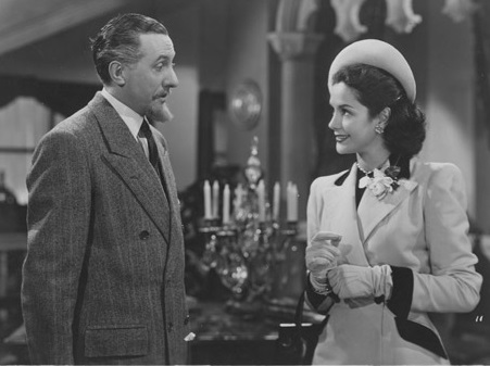 El hombre que amé- película argentina de 1947